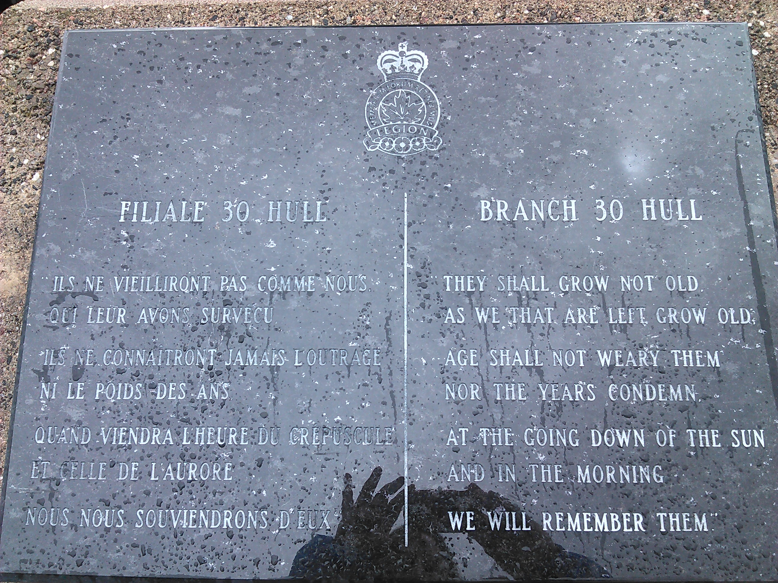 Salaberry Armoury, Gatineau, Quebec plaque 2014